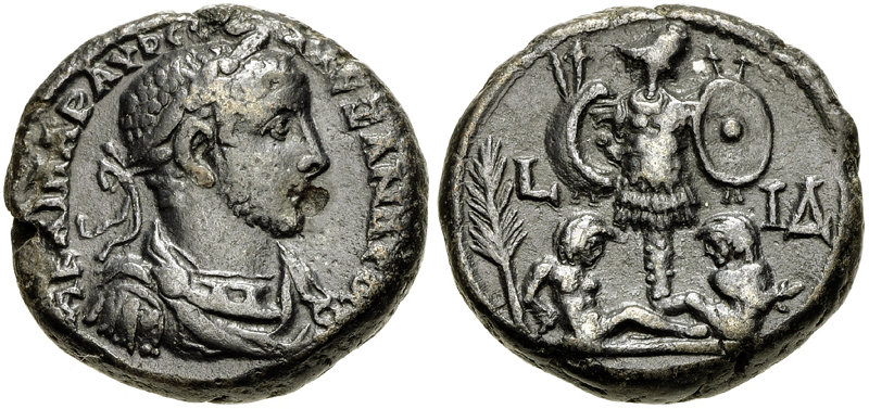 Ancient Egypt, Alexandria. Severus Alexander. AD 222-235. BI Tetradrachm (22mm, 14.14 g, 1h). Dated RY 14 (AD 234/5). ... MAP AVP ALEXANΔPOC... Laureate, draped, and cuirassed bust right Trophy; at base to left and right, bound captive; palm to left, L IΔ (date=14) across field. Köln 2494; Dattari 4405; cf. Milne 3184 ; Emmett 3138.14. Good VF, minor flan flaw on obverse. Rare. Upon his return to Rome in AD 233, following his settlement of the war with the Persians, Severus departed westward to face a German threat along the Rhine, where the tribes had taken advantage of the withdrawal of Roman troops for the eastern war. In AD 234, the emperor and his mother moved themselves to Moguntiacum (Mainz), which served as the Roman staging point. The troop redeployment from the east eased tensions somewhat, and an ambitious offensive campaign was planned, including the construction of a bridge across the Rhine. Alexander, however, preferred to bring about a “victory” by buying off the Germans, rather than committing troops to fight. Such a policy outraged the soldiers, who were eager to engage the Germans and enrich themselves with the spoils of war. Severus’ troops mutinied in mid March AD 235, killing him and his mother, and installing Maximinus as emperor.